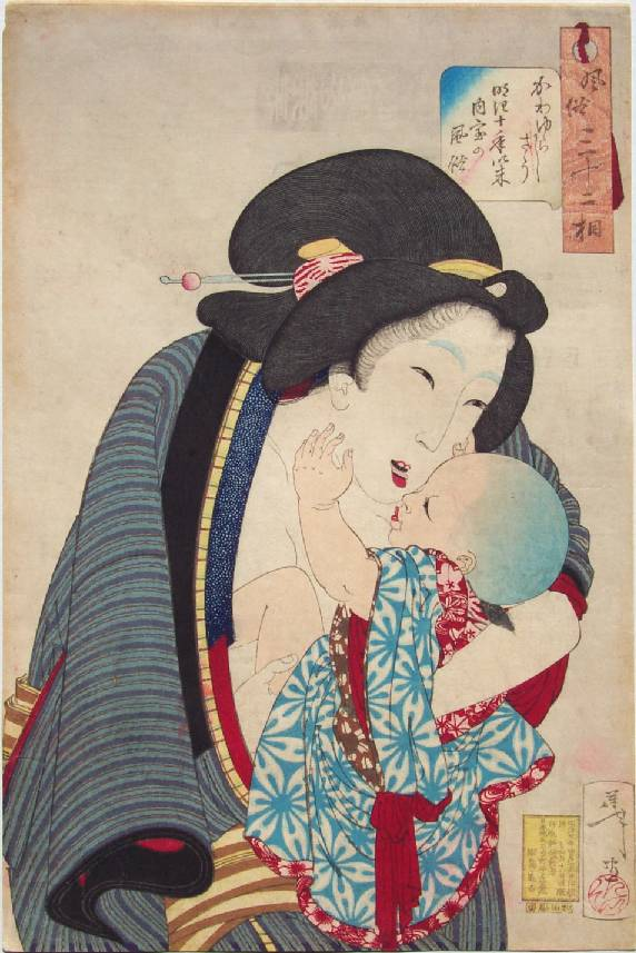 Kawayurashiso Meiji Junen Irai Naishitsu no Fuzoku